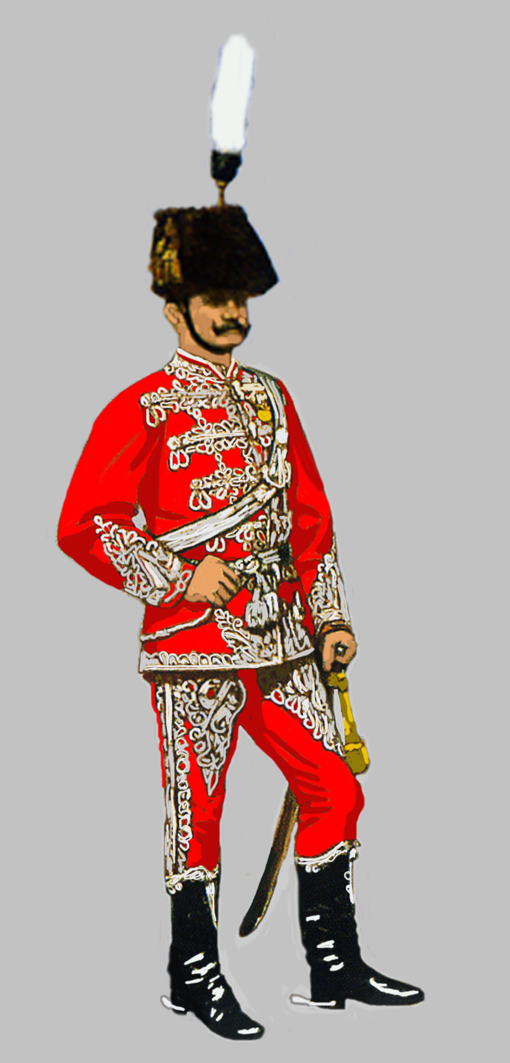 Member of the "Royal Hungarian" Leibgarde in court service uniform.